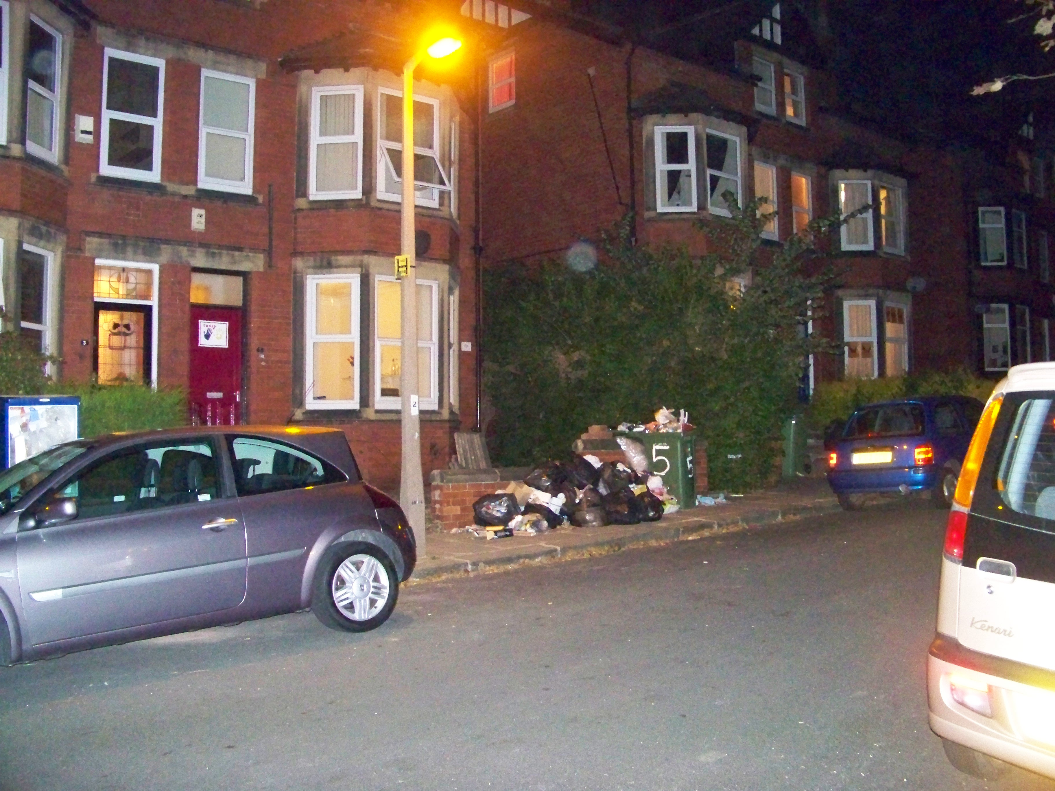 Headingley Avenue, Headingley, Leeds at night during the 2009 Leeds refuse workers strike, see the evidence. Taken on the evening of Thursday the 24th of September 2009.